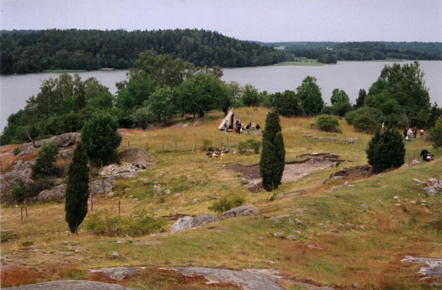 Wide angle shot of the archaeological excavation at Birka.